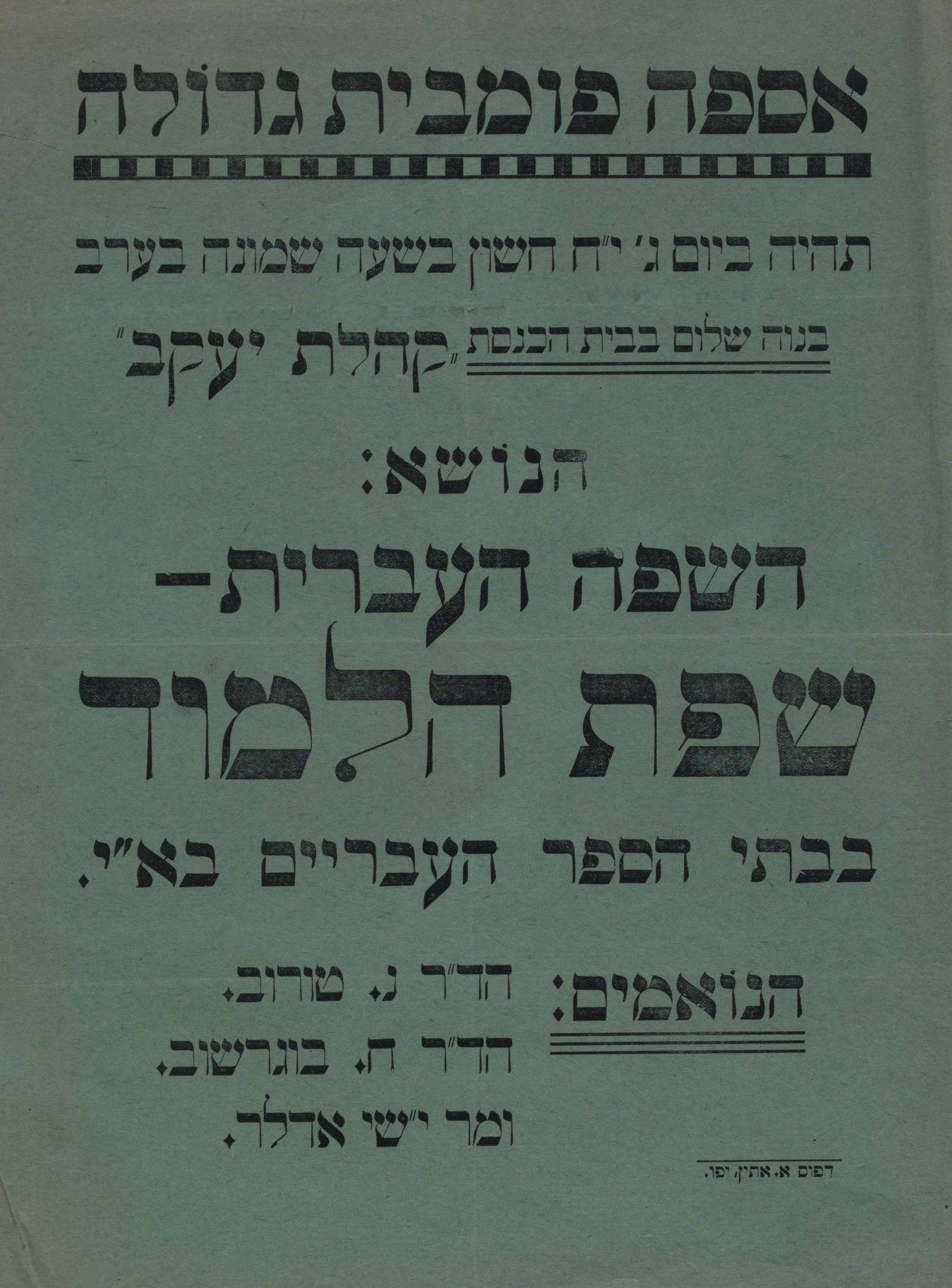 The Storm of Posters: The Battle for the Hebrew Language. A gathering in Nave Shalom